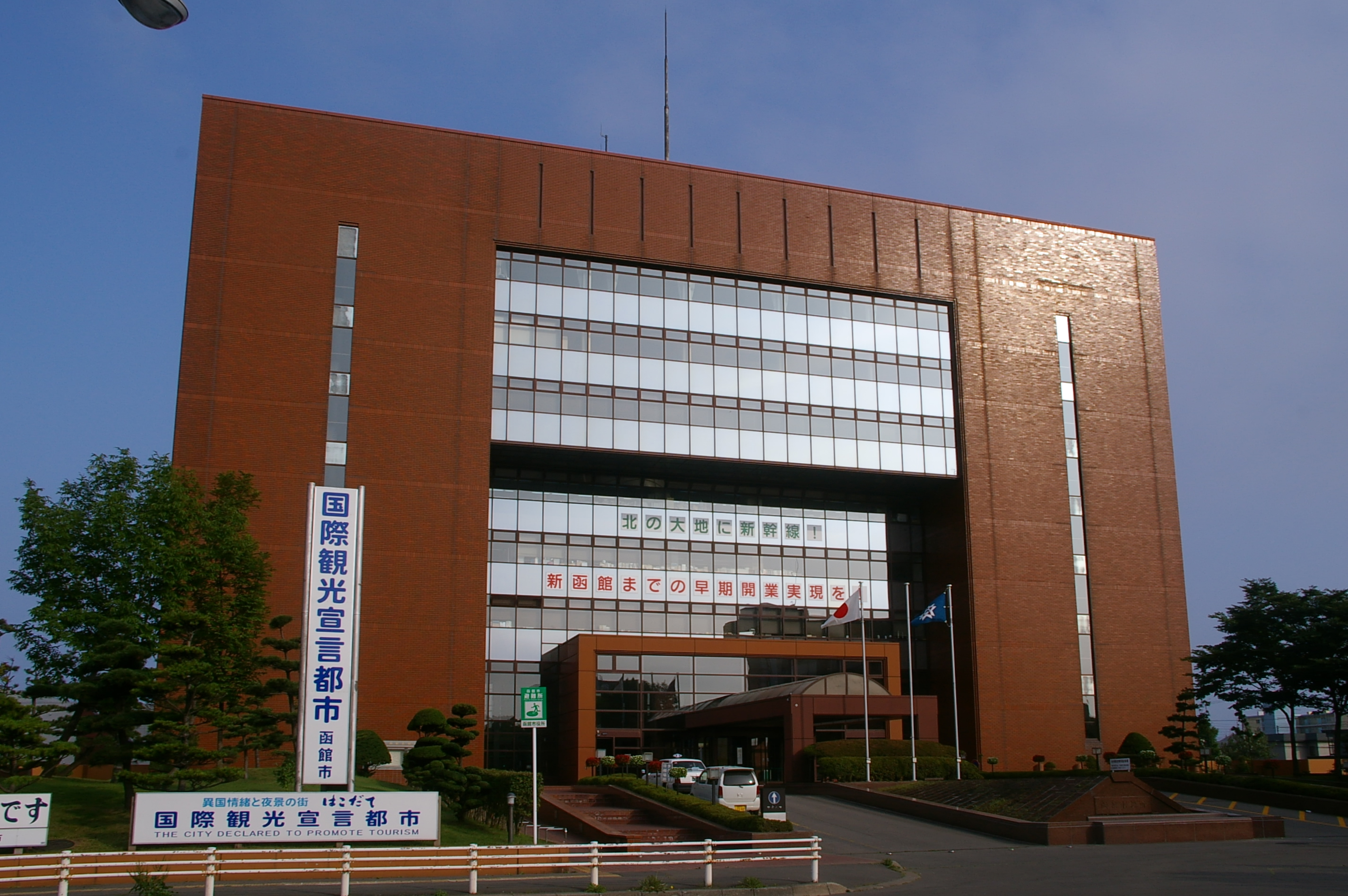 Photograph of Hakodate City Hall in Hakodate, Hokkaido, Japan.